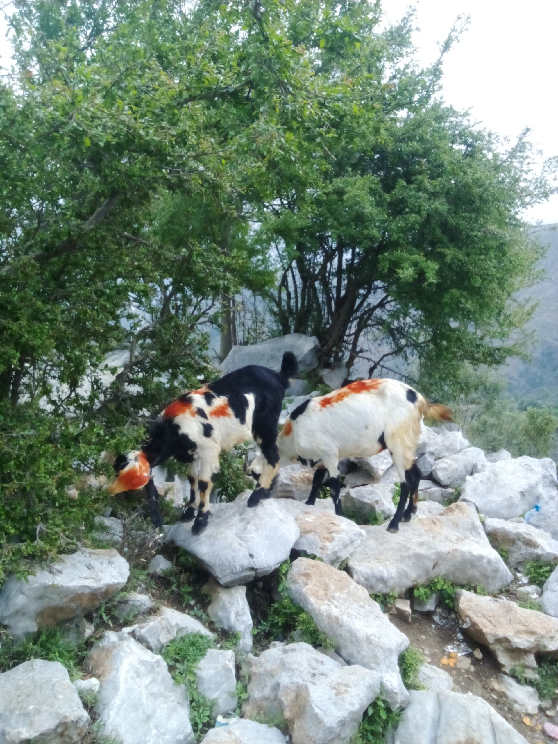 Sarban hill